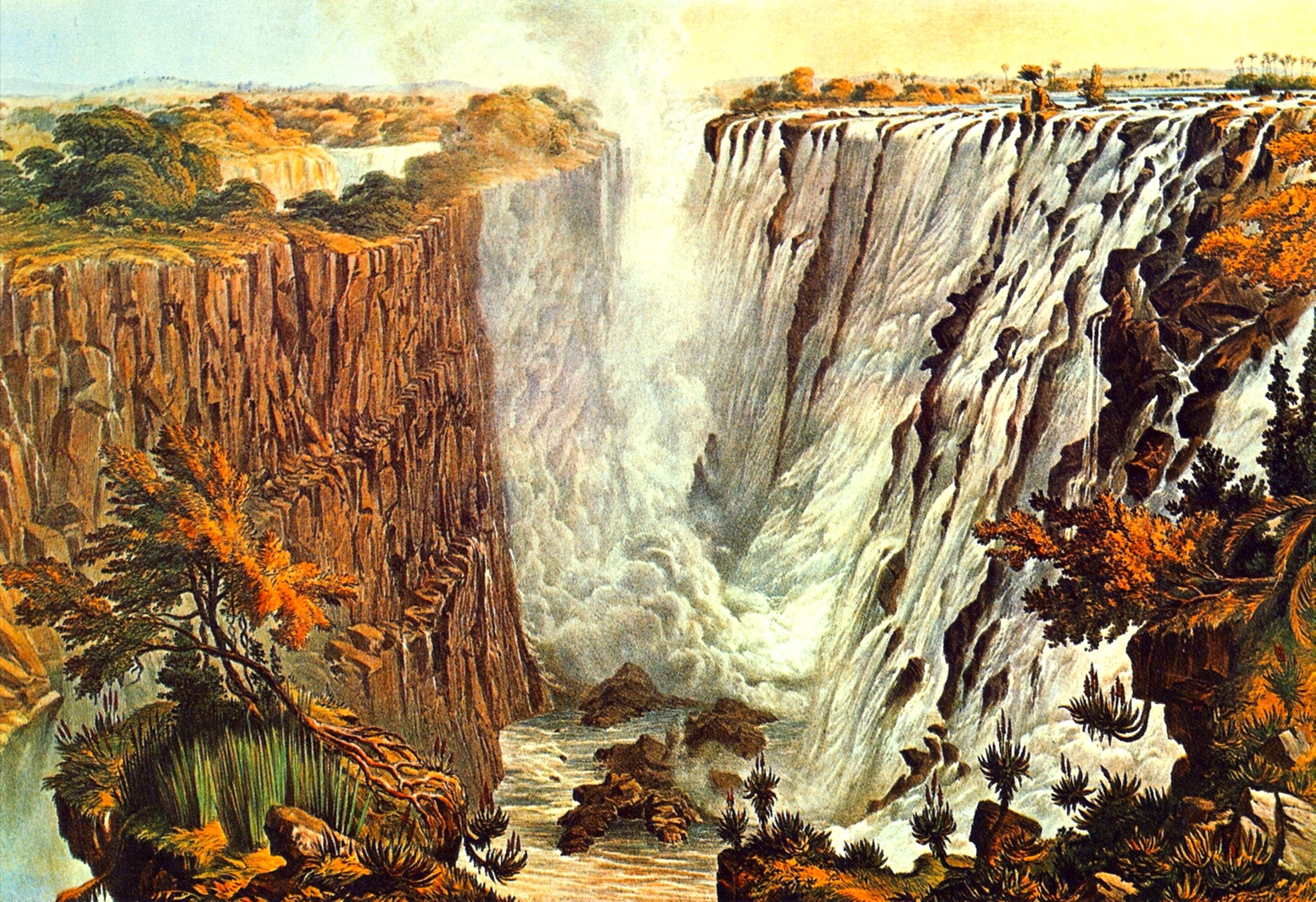 Title: "THE FALLS FROM THE EAST END OF THE CHASM TO GARDEN ISLAND." Additional text: "T. Baines del_F. Jones, Lith. London Published October 4th. 1865 by Day & Son, (Limited) Lithographers Gate Street, Lincoln's Inn Fields. WC. Day & Son (Limited) Lith." Content: Victoria Falls with trees and aloes